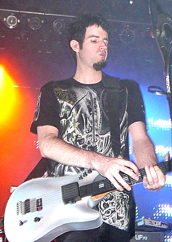 Rob Swire playing Ztar at CenterStage in Atlanta, GA, USA on March 25, 2009